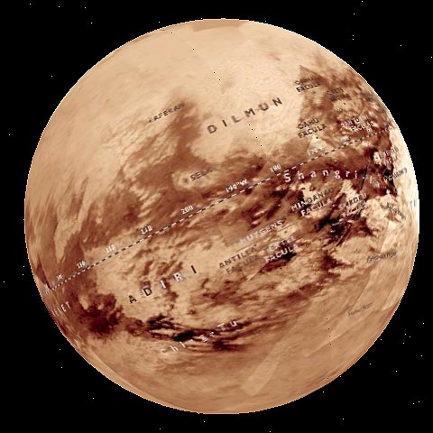 Globe of Titan